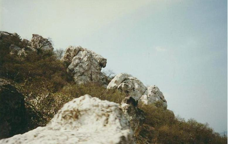 Bear-shaped dolomite rock in Sas-hegy nature conservation area, Budapest, Hungary.